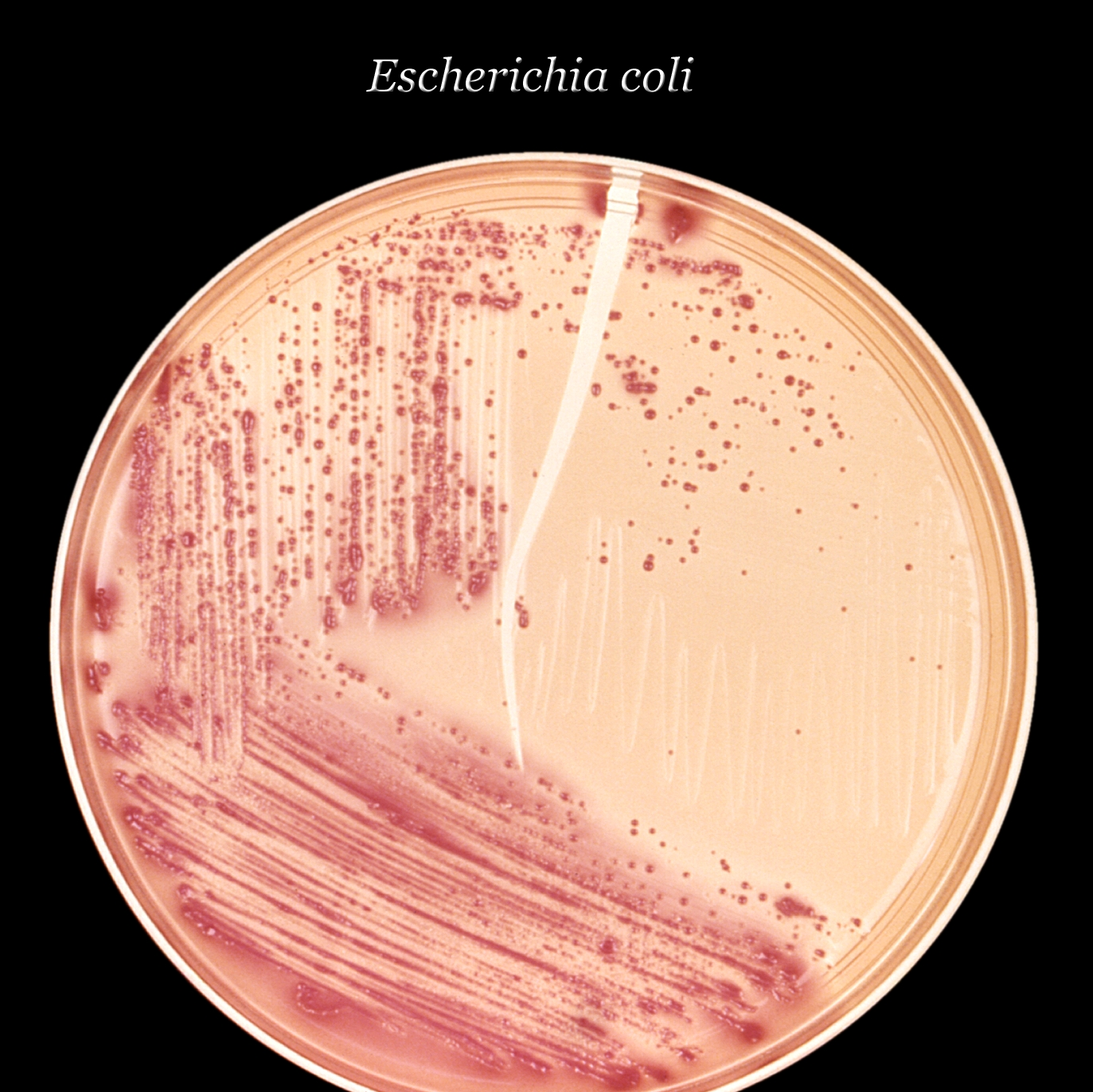 Escherichia coli on Macconkey Agar Plate